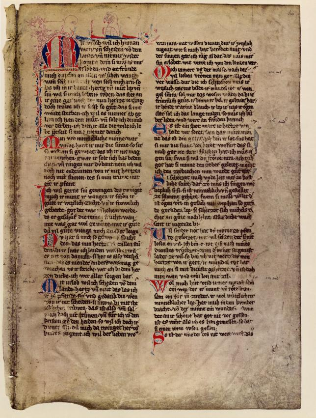 Rapperswil-Jona : Codex Manesse, fol. 44r, Count Wernher von Homberg / Werner von Hohenberg